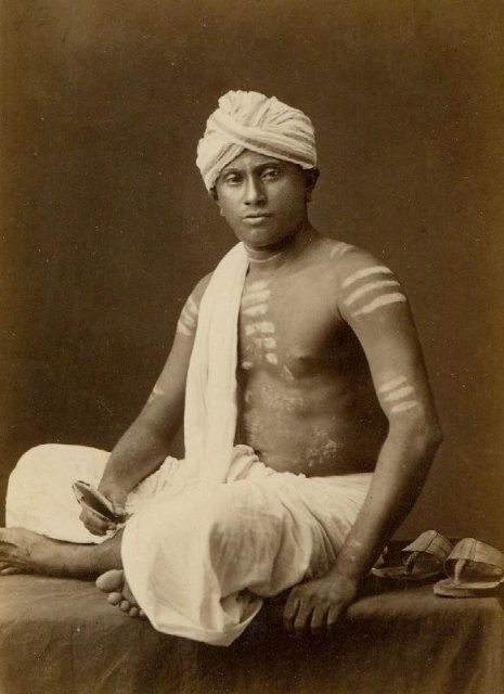 Chetty in Ceylon